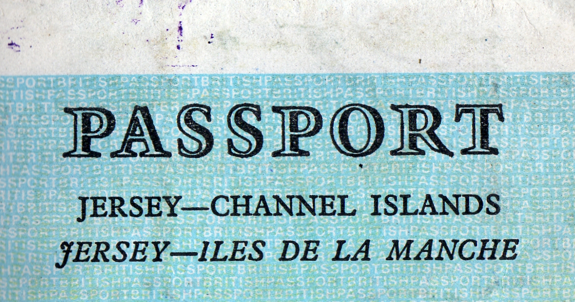 Bilingual text in Jersey passport (issued 1981) showing Channel Islands (English) & Îles de la Manche (French)